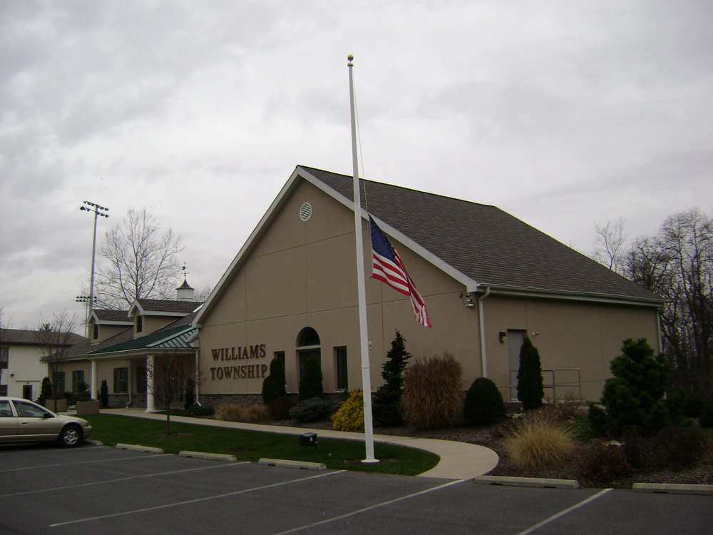 The Williams Township municipal building in Northampton County, Pennsylvania.